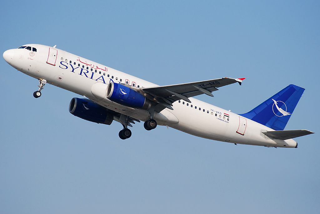 Syrian Arab Airlines A320 at Vienna Int. Airport